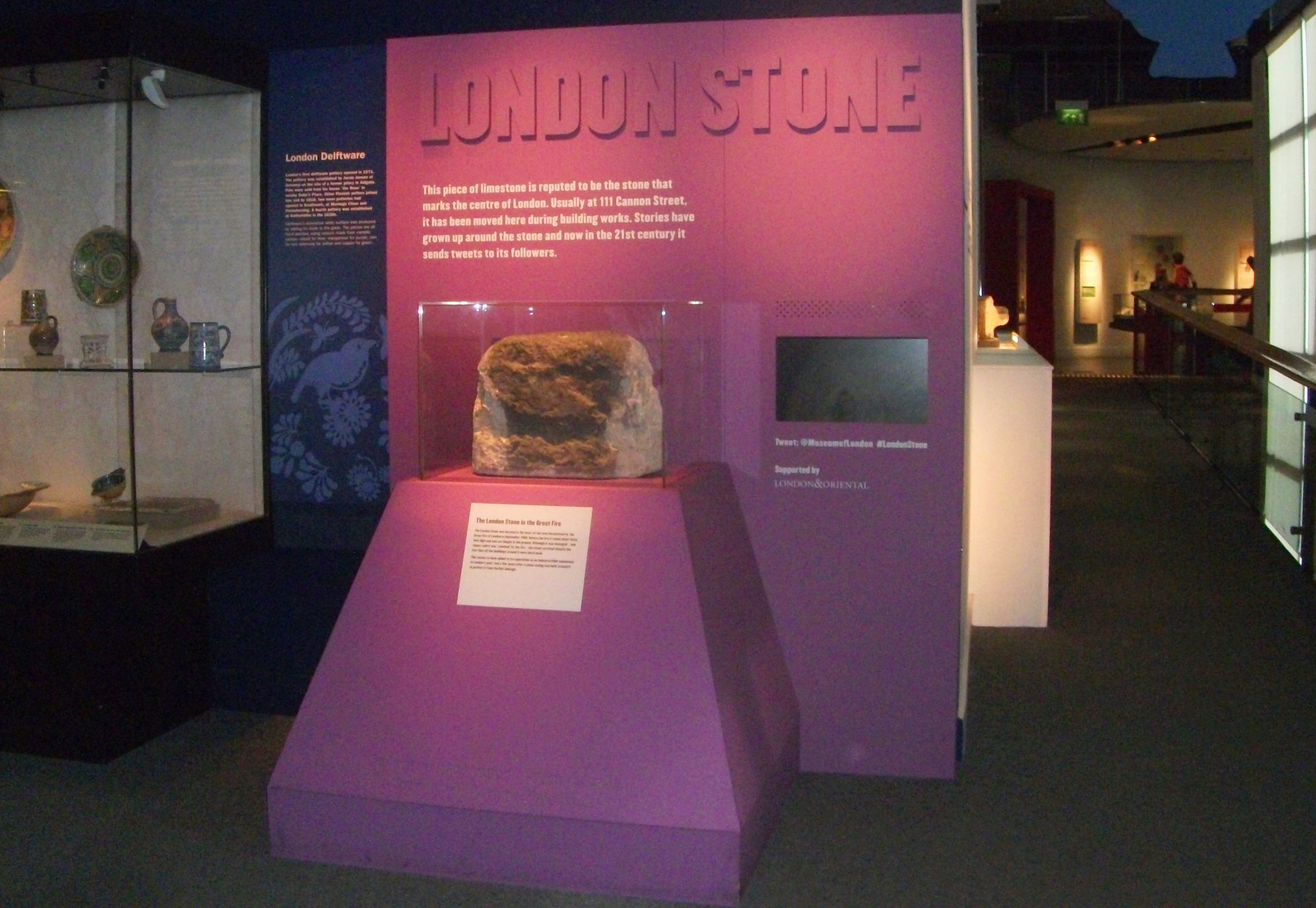 The London Stone in Museum of London in 2016